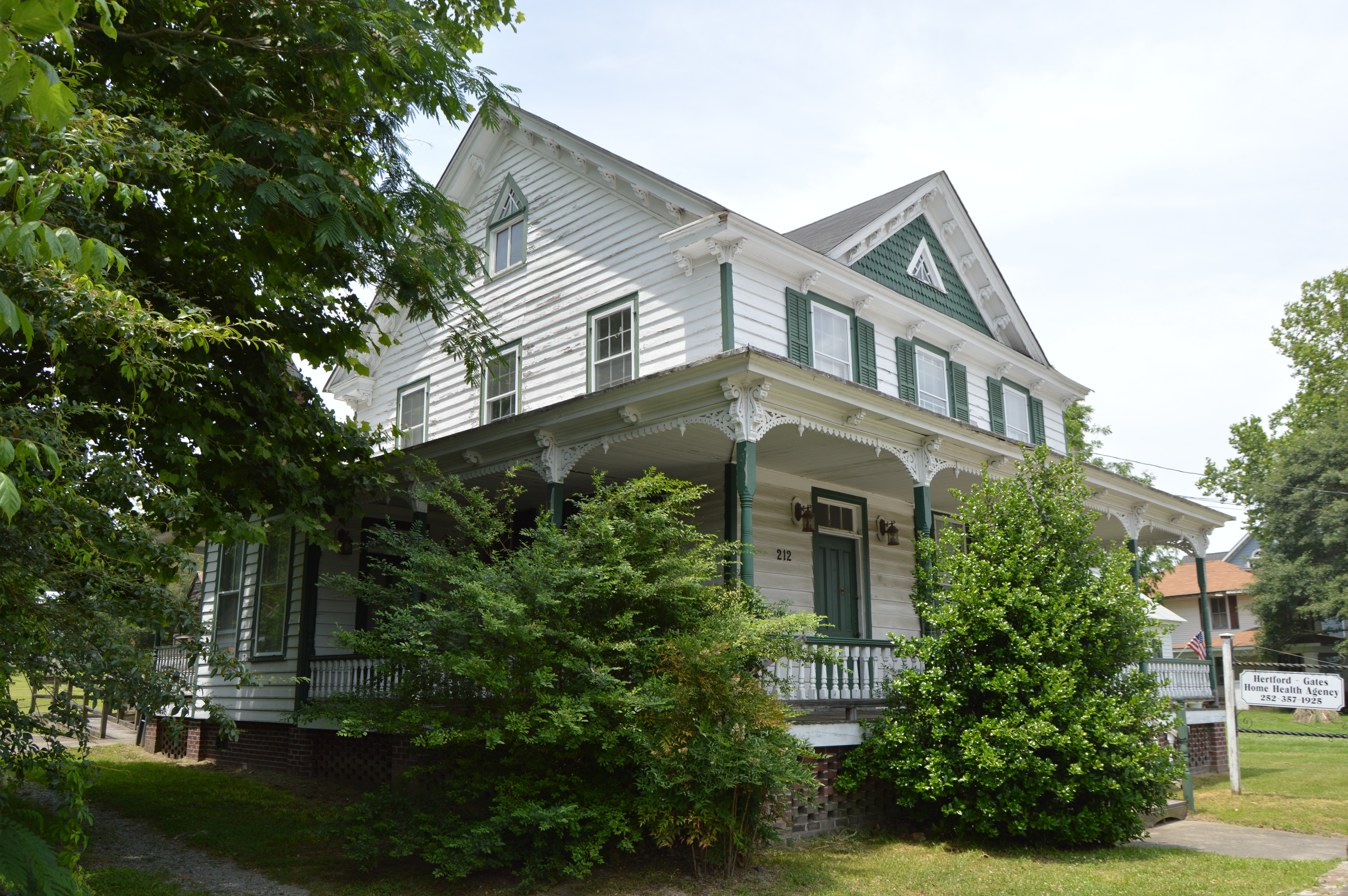 Front of the Eure-Roberts House, located at 212 Main Street (North Carolina Highway 37) in Sunbury, North Carolina, United States. Built in 1850 and later remodelled, it is listed on the National Register of Historic Places.